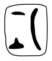 Drawing of the parietal plicae of Halongella schlumbergeri (Morlet, 1886). Locality: Rochers de Nuy-Dong-Nay, MNHN-IM-2012-2481.